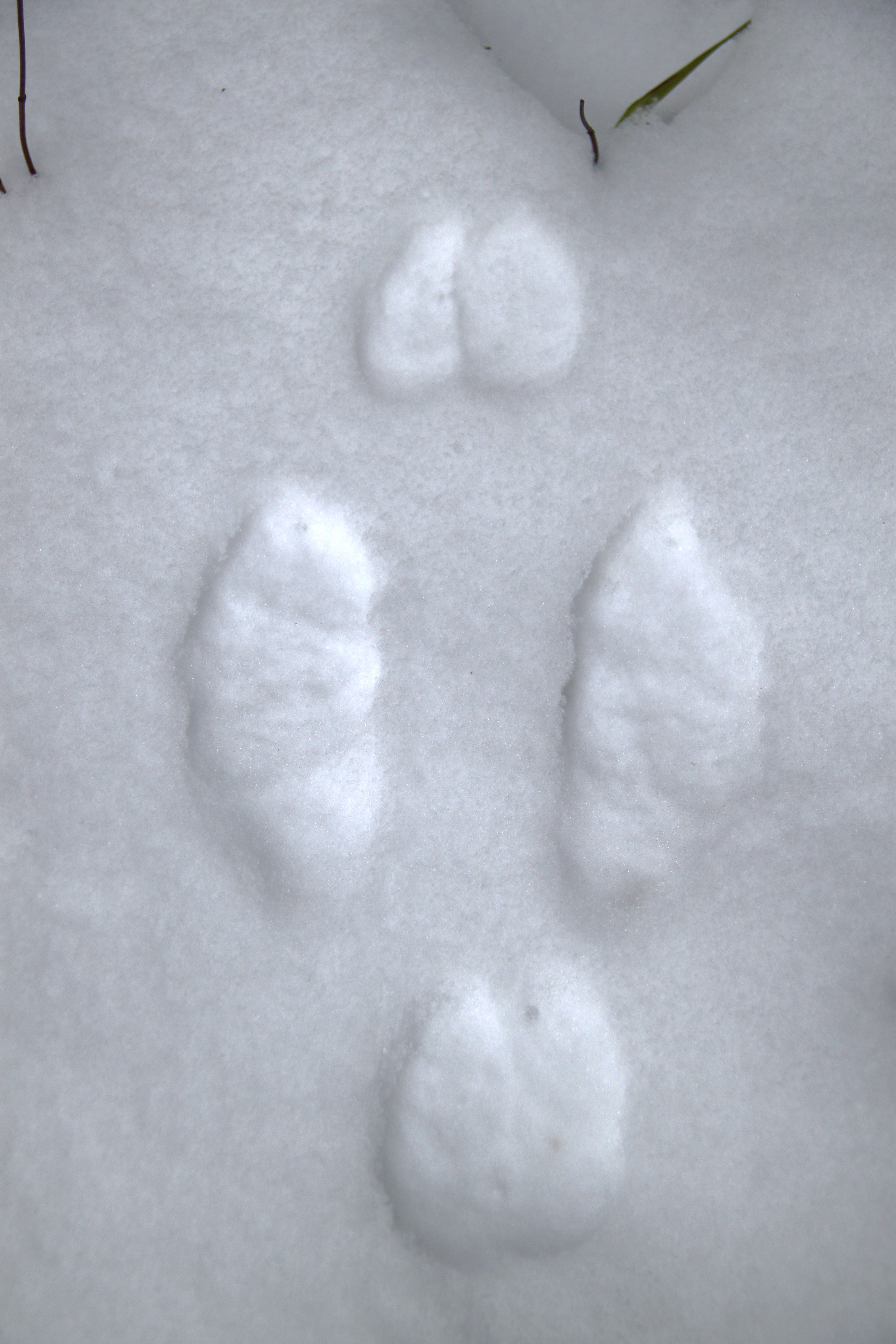 Snowshoe Hare tracks from the Westville unit of the Missisquoi National Wildlife Refuge. These tracks show that the animal stopped and rested here as evident by the double prints of the front legs. Credit: Ken Sturm/USFWS